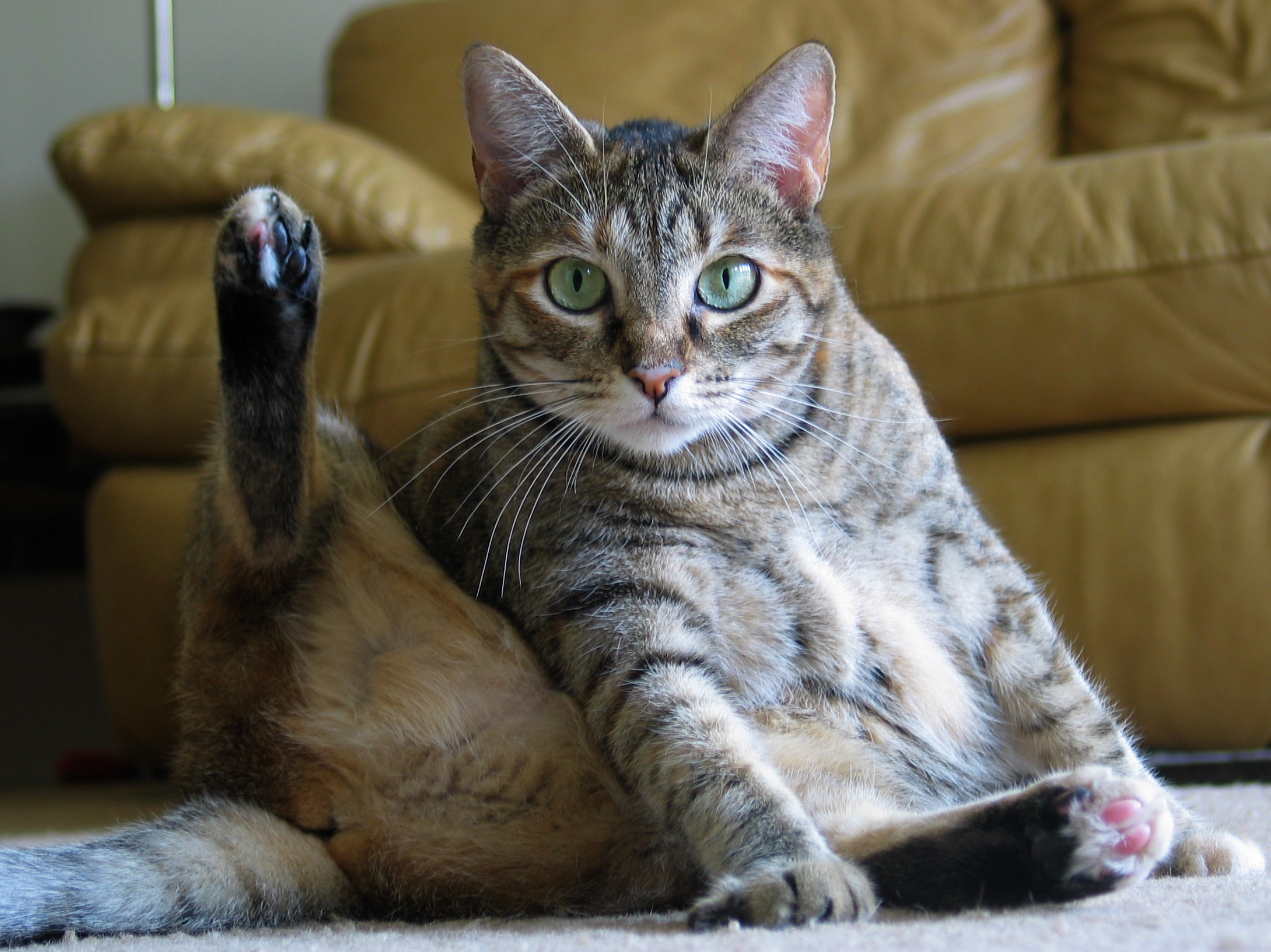 A female cat takes a break from licking herself.